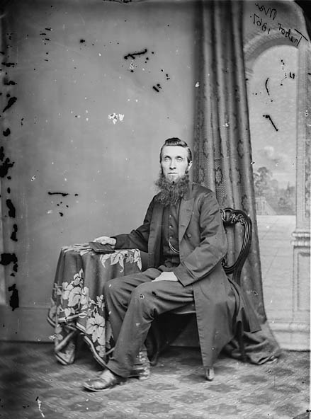 1 negative : glass, wet collodion, b&w ; 11 x 8.5 cm.